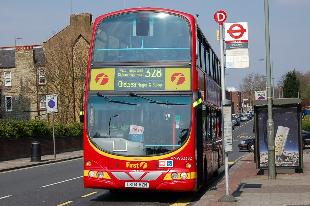 First London VNW32382 (LK04 HZN), a Volvo B7TL/Wright Eclipse Gemini, on route 328 in London.